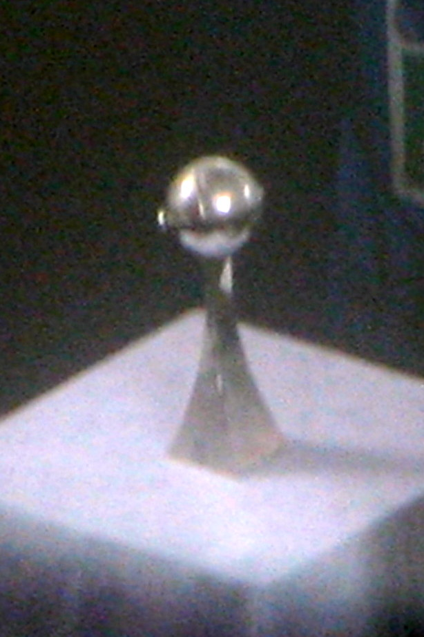 My own work,taken at Jade Stadium, Christchurch, New Zealand. Rugby Super 14 Final, Crusaders vs Hurricanes, 27th May 2006. Crusaders won 19-12. Photo taken by Maree Reveley (aka Somerslea)